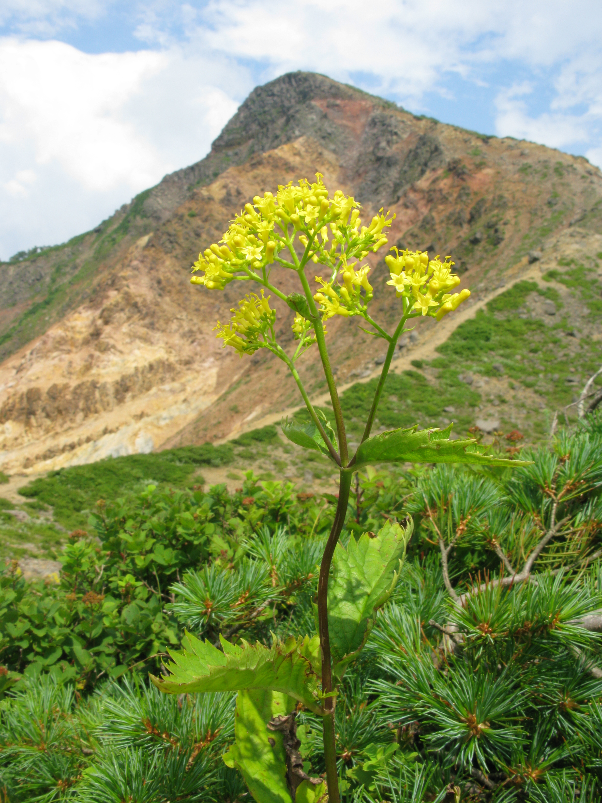 Patrinia gibbosa, Mt. Bandaisan, Fukushima pref., Japan